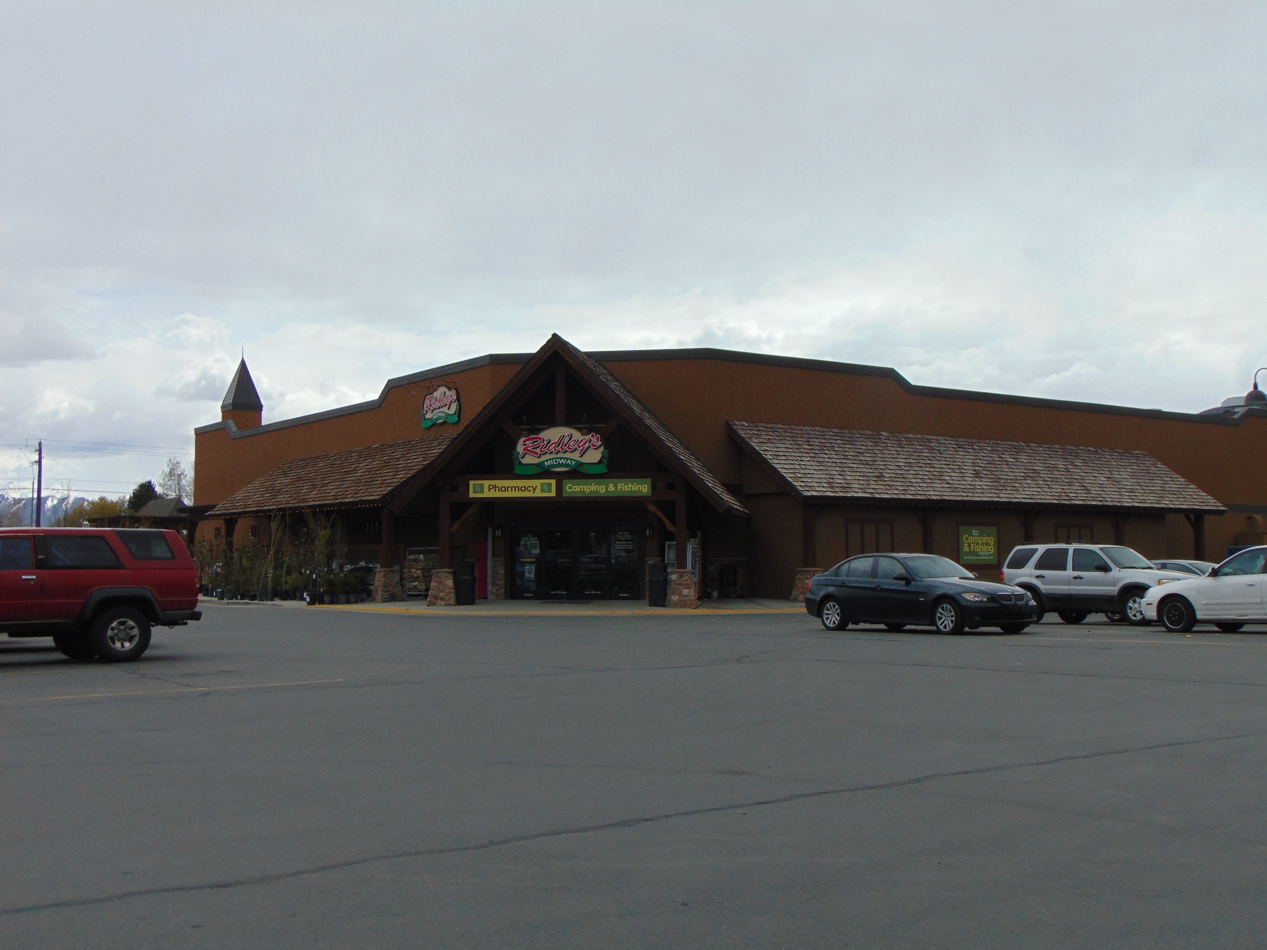 Looking southwest at Ridley's Family Market on West Main Street (Utah State Route 222) in Midway, Utah, April 2016